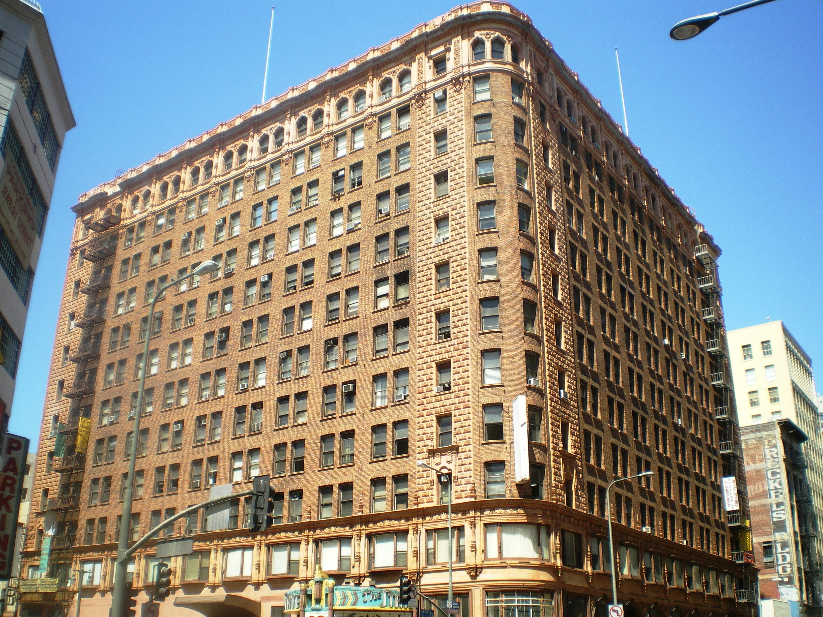 Loew's State Theater, 703 S. Broadway, Los Angeles, California